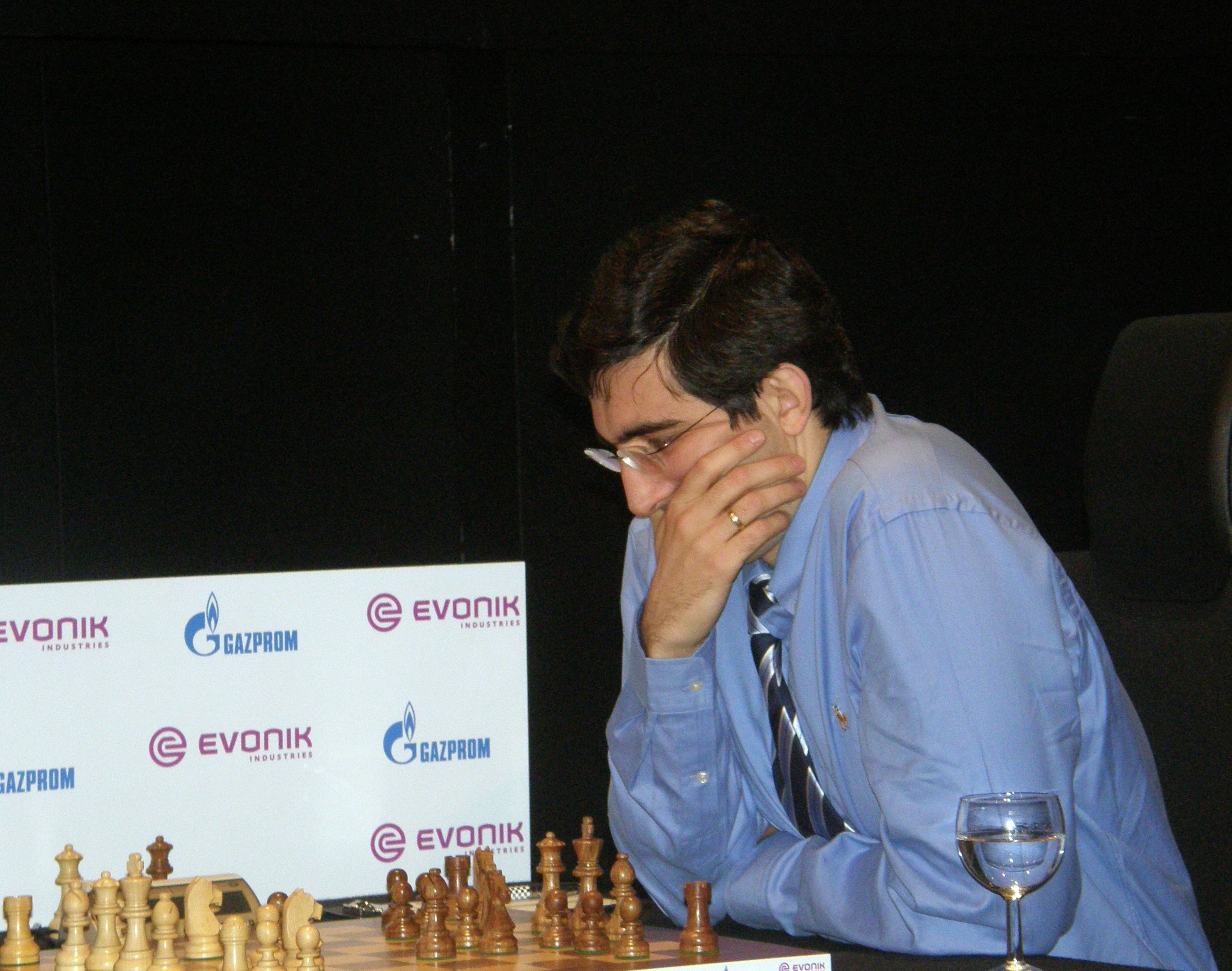 World Chess Championship 2008. Vladimir Kramnik.